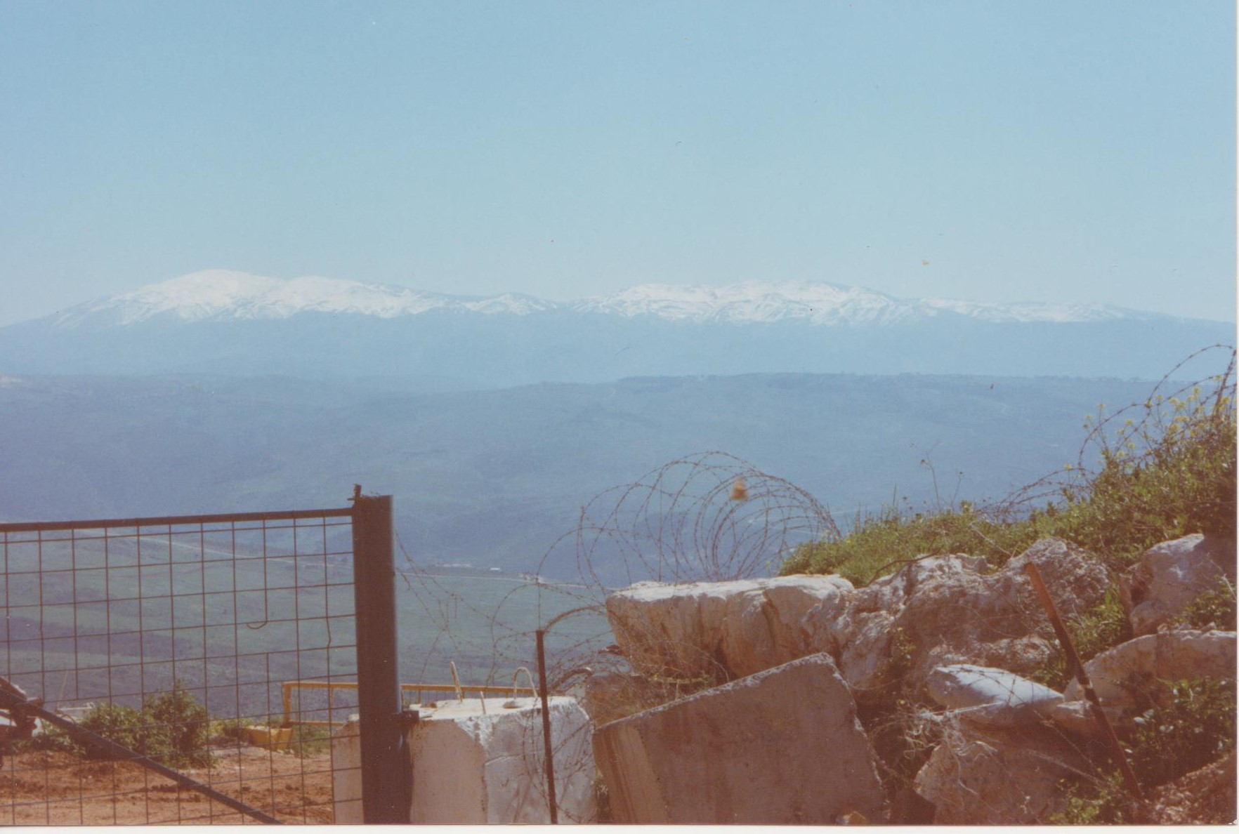 Dlaat Military post 1998 התמונה צולמה מהש.ג. של מוצב דלעת (על ידי מתי פרידמן) לכיוון החרמון במרץ 1998